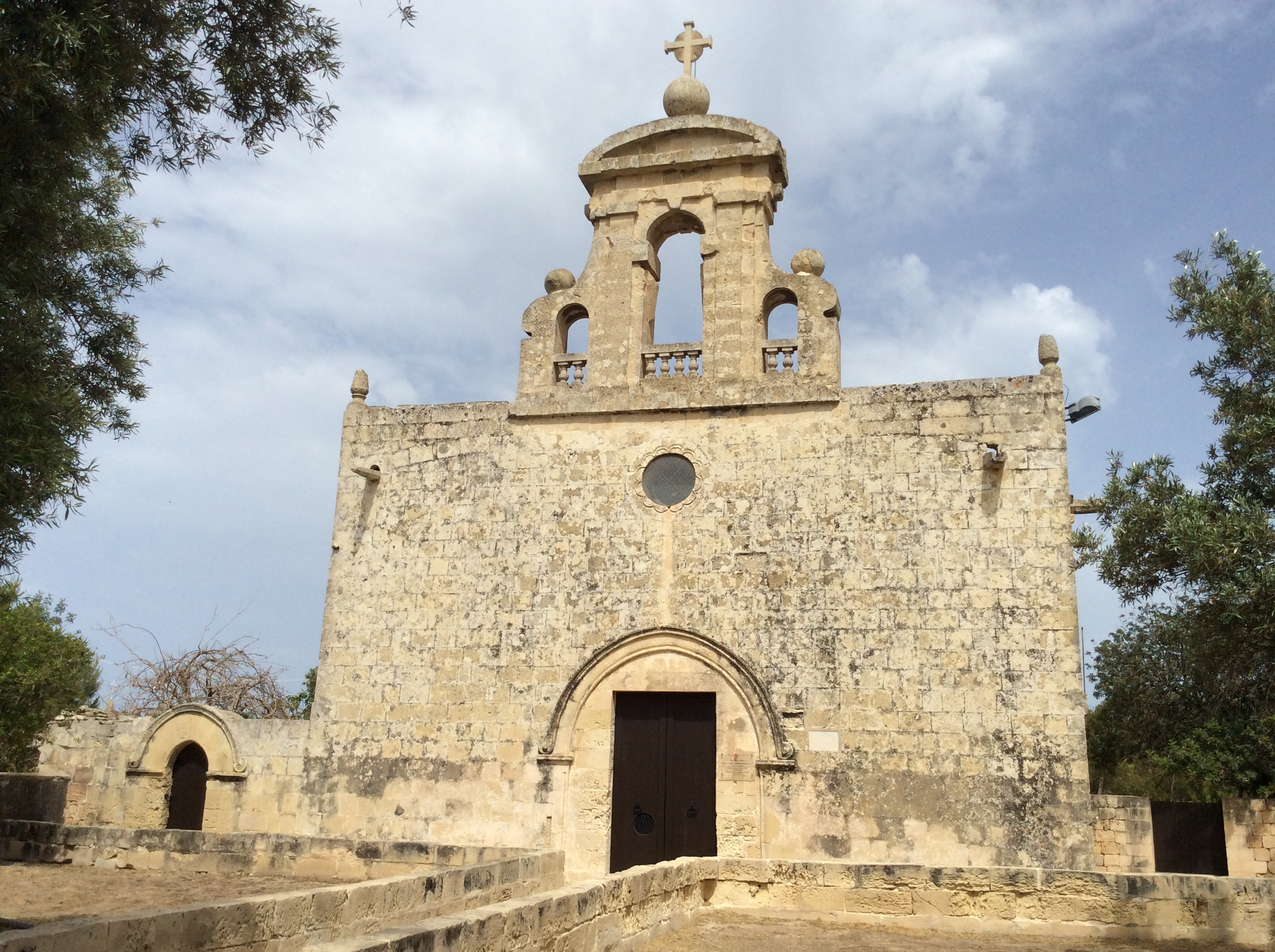 Chapel of St. Marija ta' Bir Miftuh This media is about Maltese cultural property with inventory number 01806.